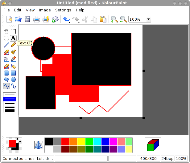 Kolourpaint screenshot.